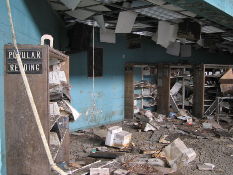 New Orleans after the Hurricane Katrina levee failure disaster: View in Martin Luther King branch library, Lower 9th Ward, 6 months after the disaster before gutting and repair began. Tossed shelving, damaged ceiling, deposit of flood silt on floor.